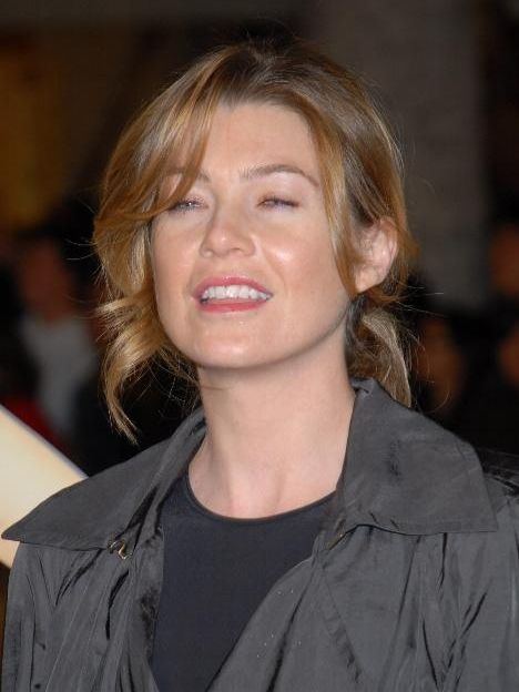 January 7, 2008 - 27 Dresses Premiere in Westwood